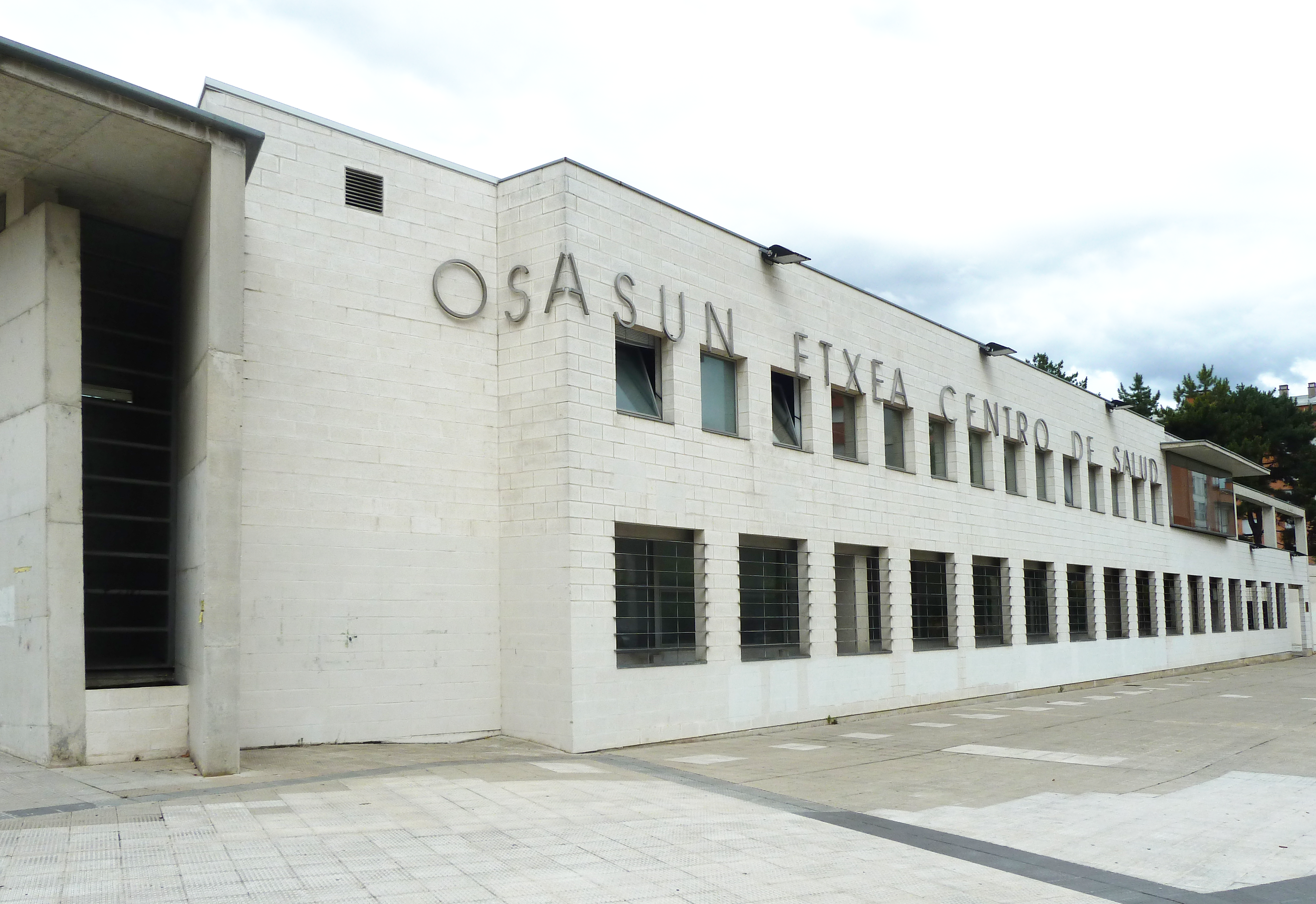 Iruñeko Sanduzelai auzoan osasun-zentroa Sanduzelai karrikan dago kokatua 1995etik. 2008an handitu egin behar izan zuten bertan atxikita zeuden pertsonak gero eta gehiago zirelako.